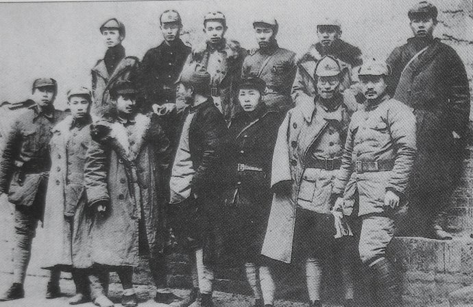 Red Army 2. 中国工农红军.